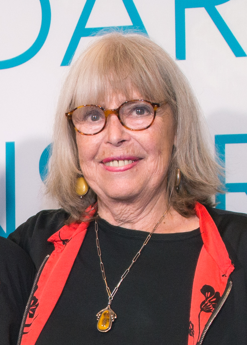 Summer host in P1 in Sweden's radio 2019.